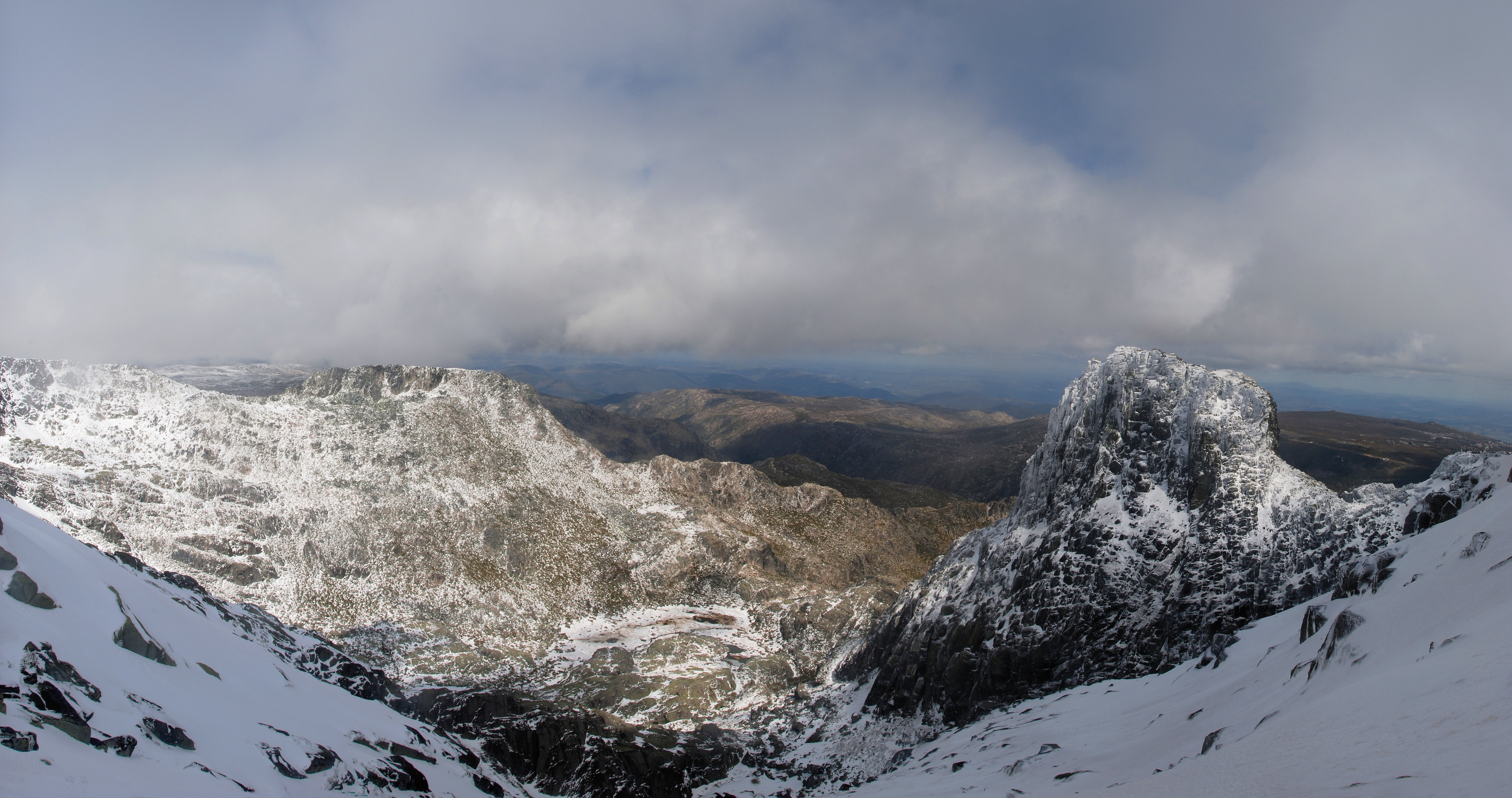 A view of the Serra da Estrela ('Estrela Mountains'), Portugal. Panorama of seven photos